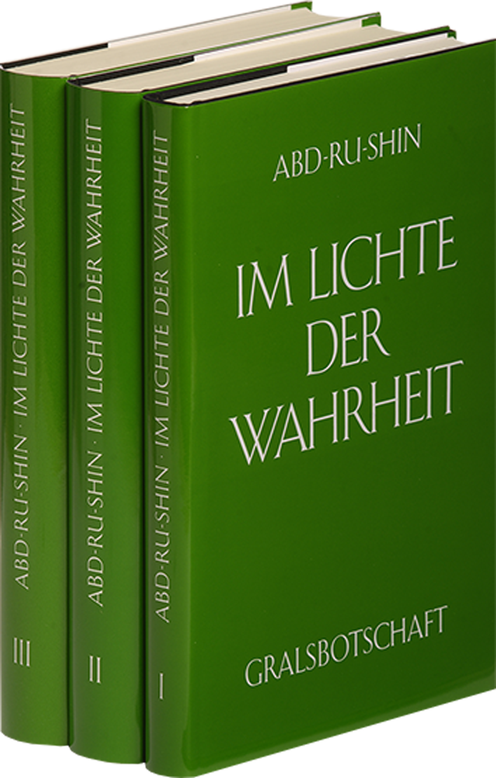 Grail Message "In the Light of Truth" by Abd-ru-shin, definitive edition in three volumes